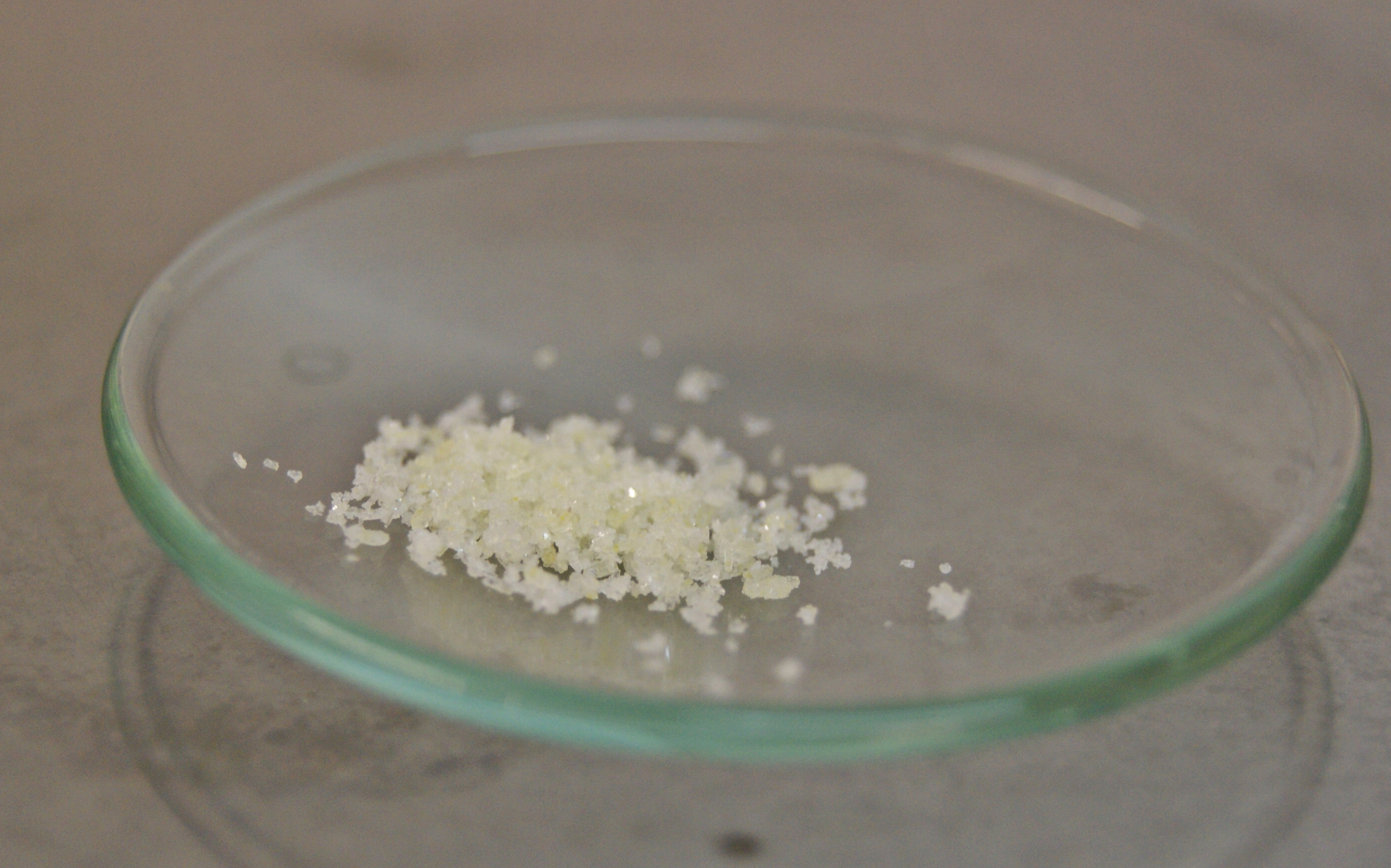 Thioacetamide